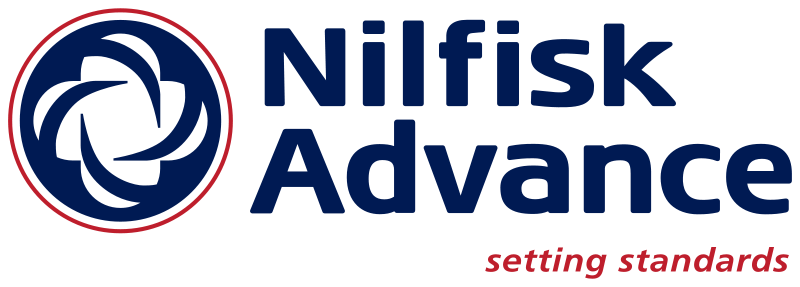 The Nilfisk-Advance logo with the slogan "setting standards"